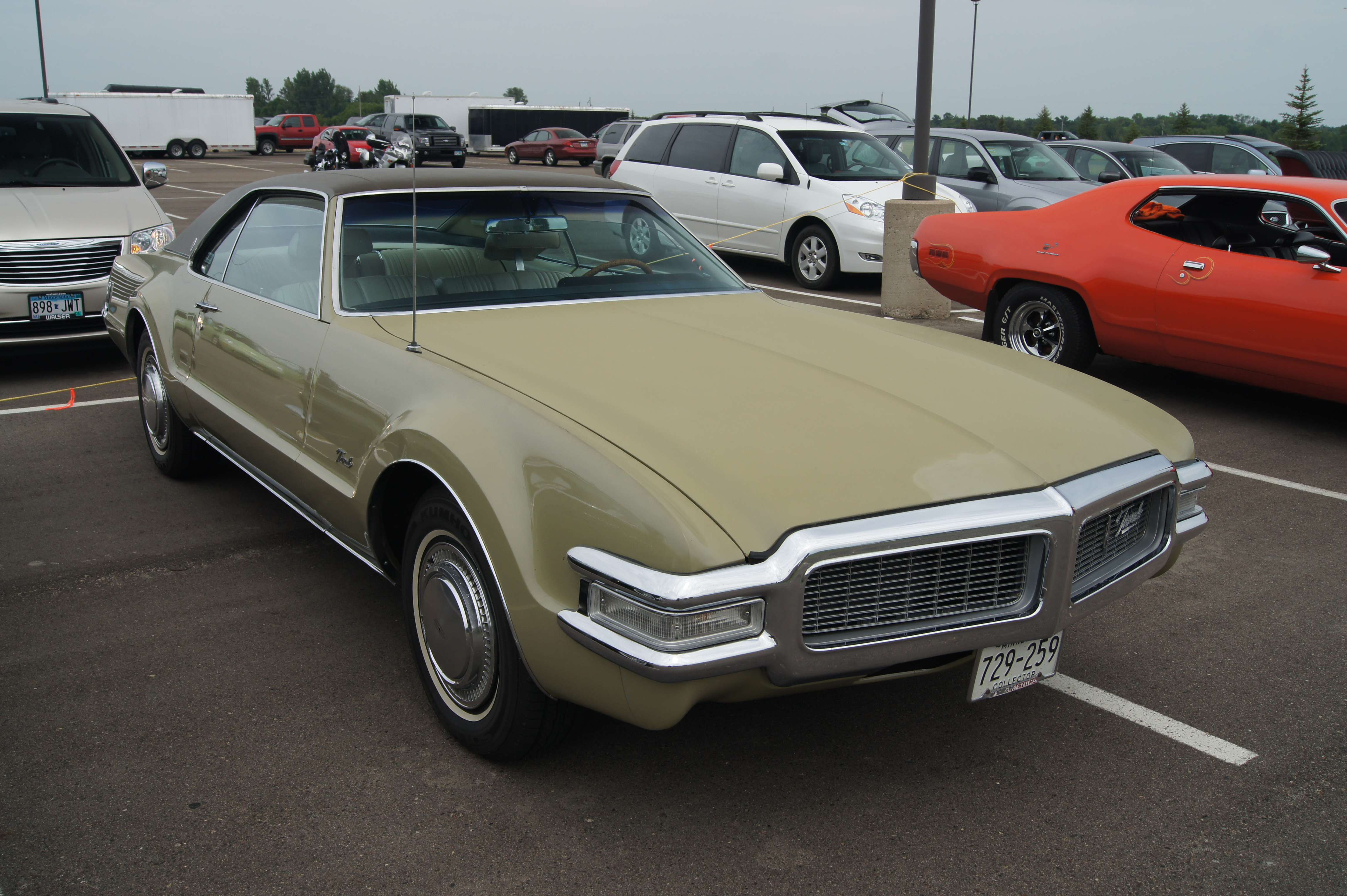 28th Annual New London to New Brighton Antique Car Run Lunch Stop Buffalo High School Buffalo Minnesota Mile 78.8 More Car Pictures